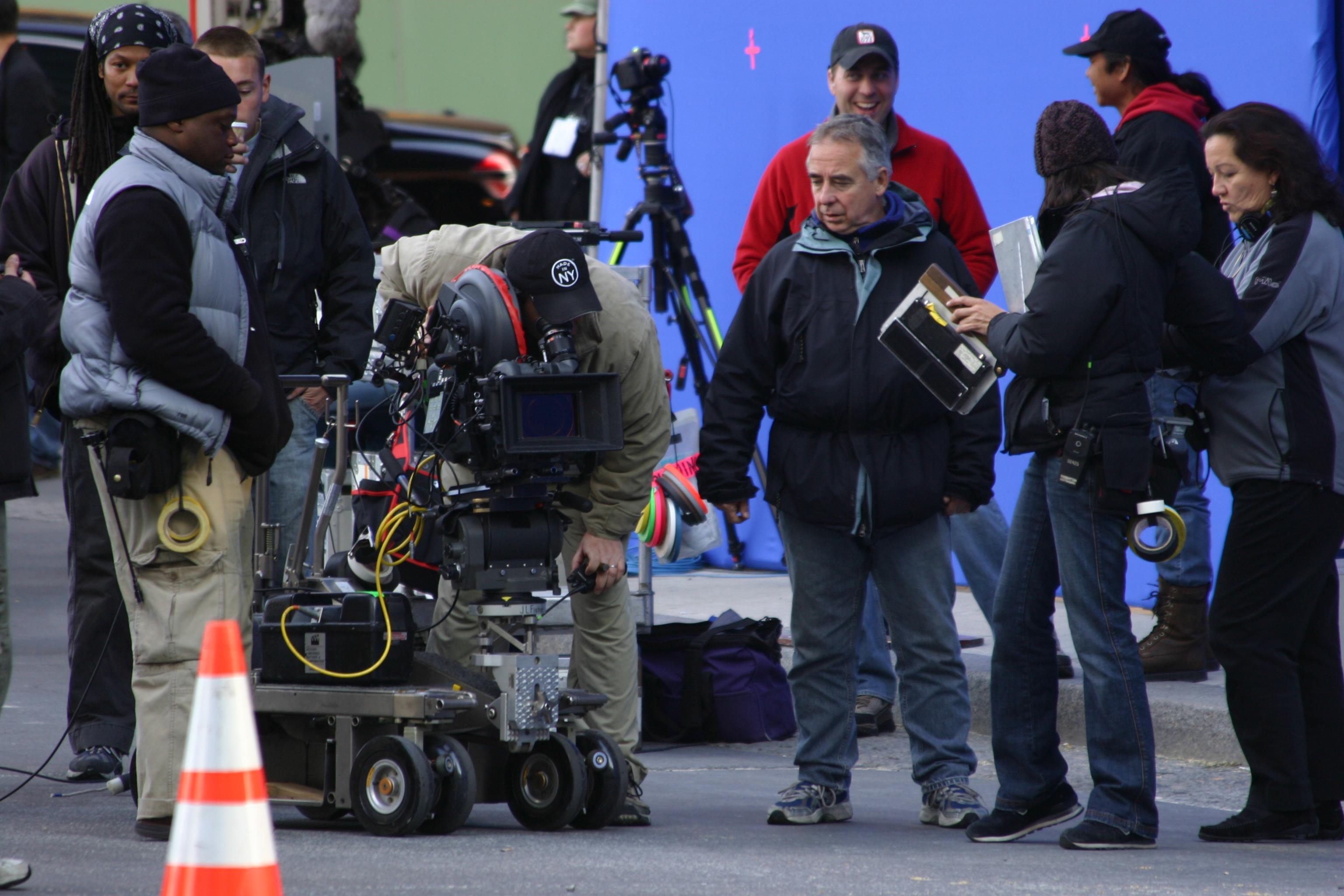 Across Columbus Circle, there was a film crew fiddling with their equipment. The people trying to clear the area told us that they were filming "I Am Legend"; there's a scene where Will Smith will be walking across a deserted Columbus Circle, and they had to make it deserted for that purpose.